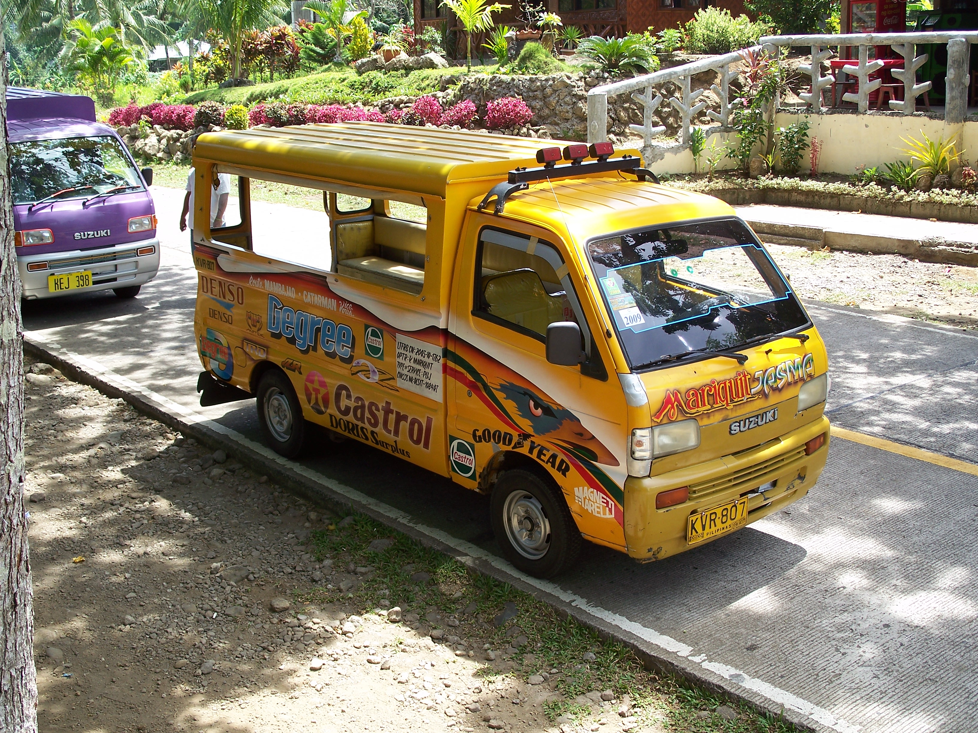 Multicab in Camiguin